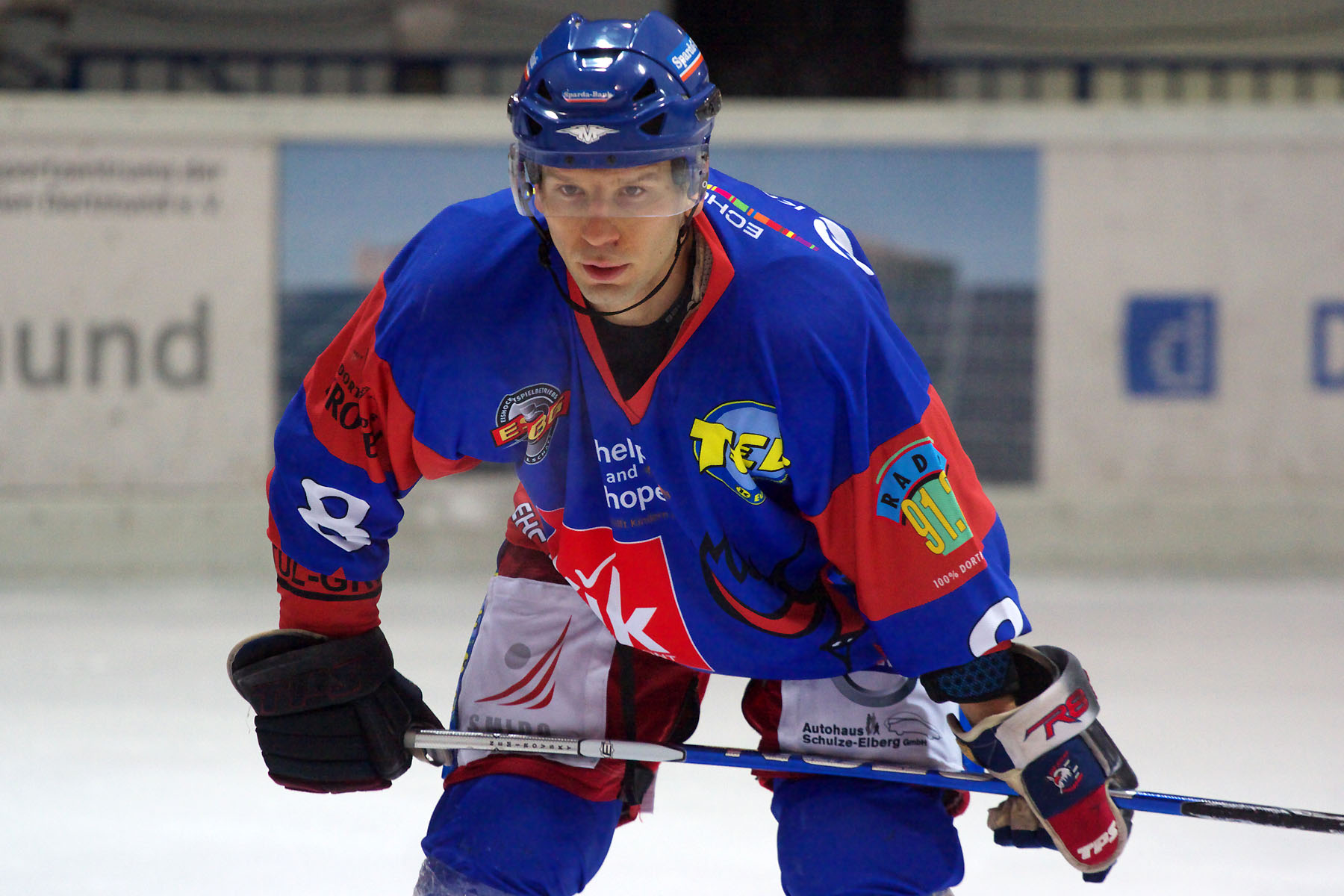 EHC Dortmund - #78 - Mikhail Nemirovsky - New in the team since december 2009